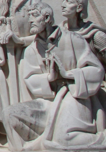 Saint Francis Xavier (1506-1552) in the Padrão dos Descobrimentos (Monument to the Discoveries), in Lisbon, Portugal.